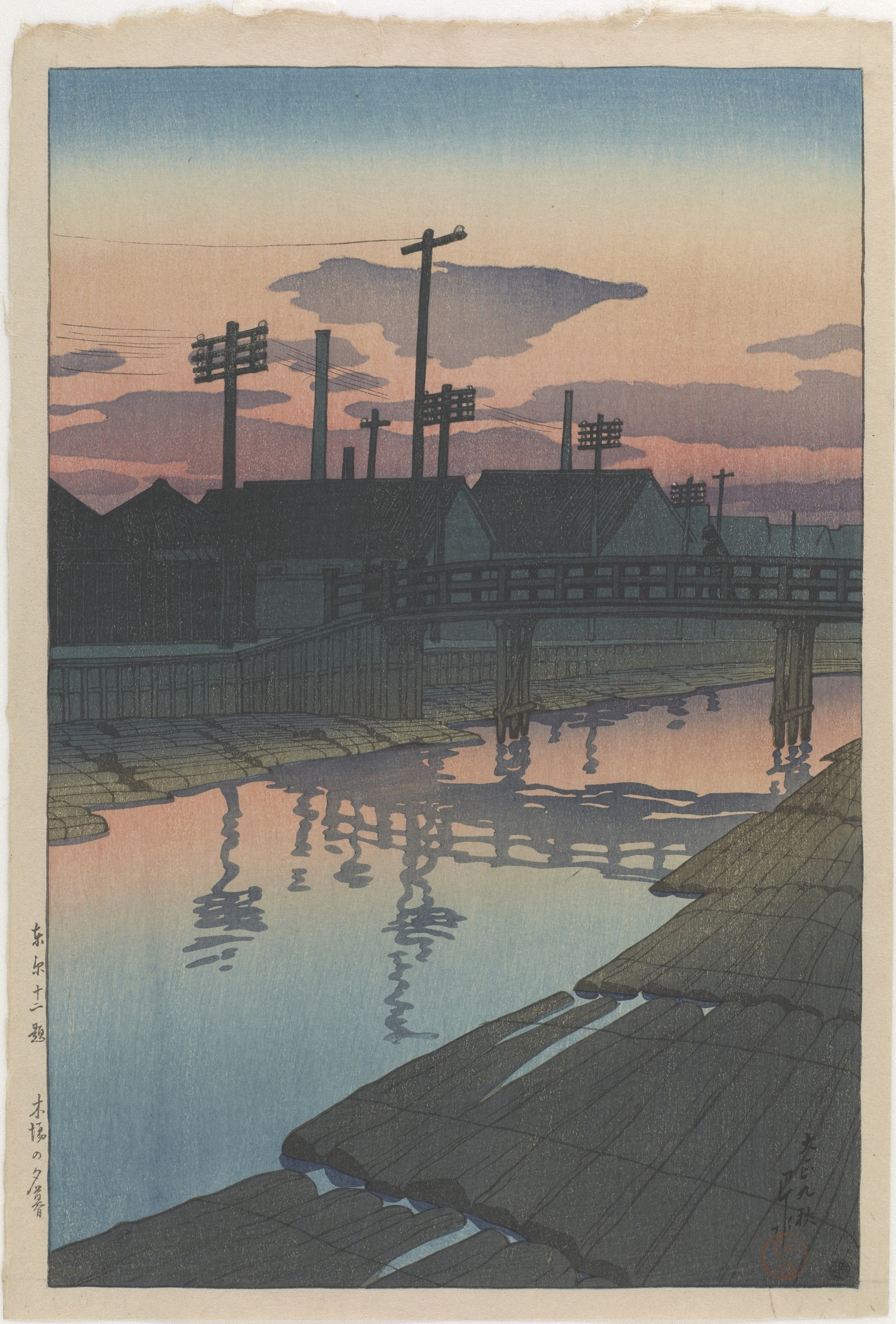 Evening at the Lumber Yards of Kiba (Kiba no yūgure), from the series Twelve Scenes of Tōkyō (Tōkyō jūnidai), woodblock print